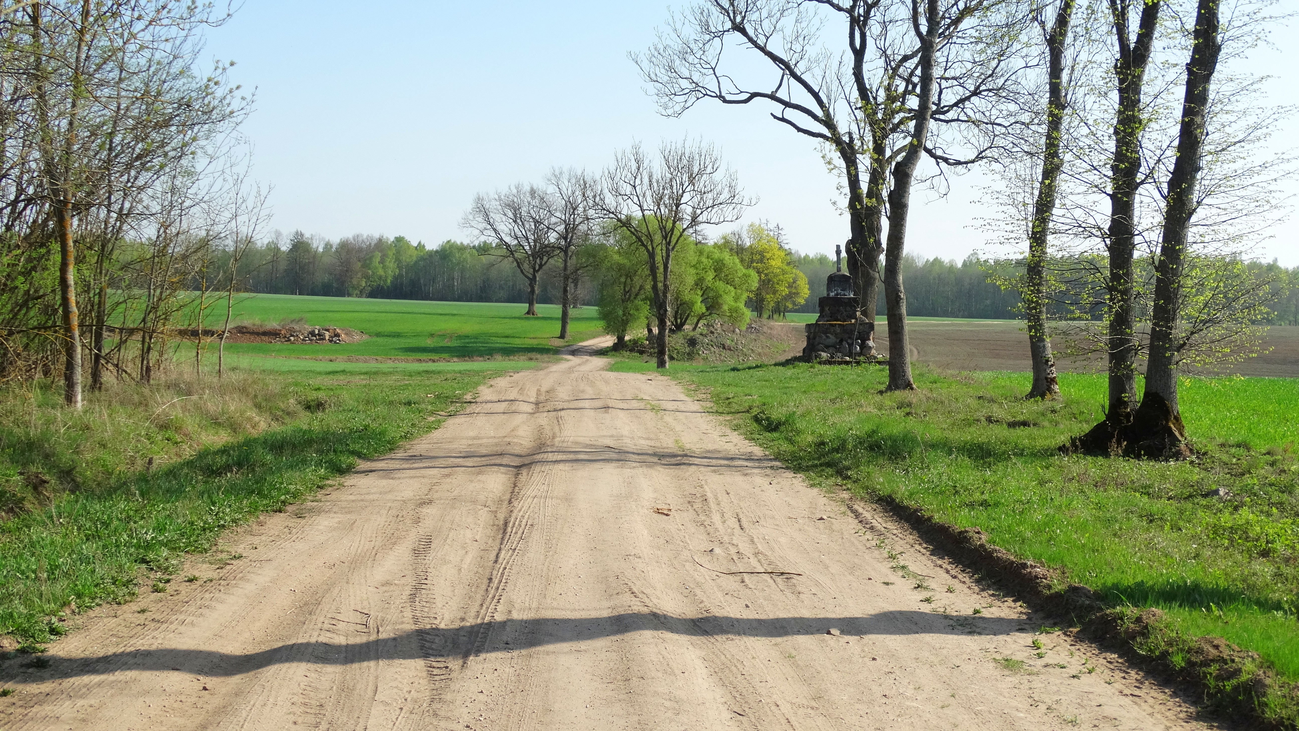 Geniai (Radviliškis), Lithuania